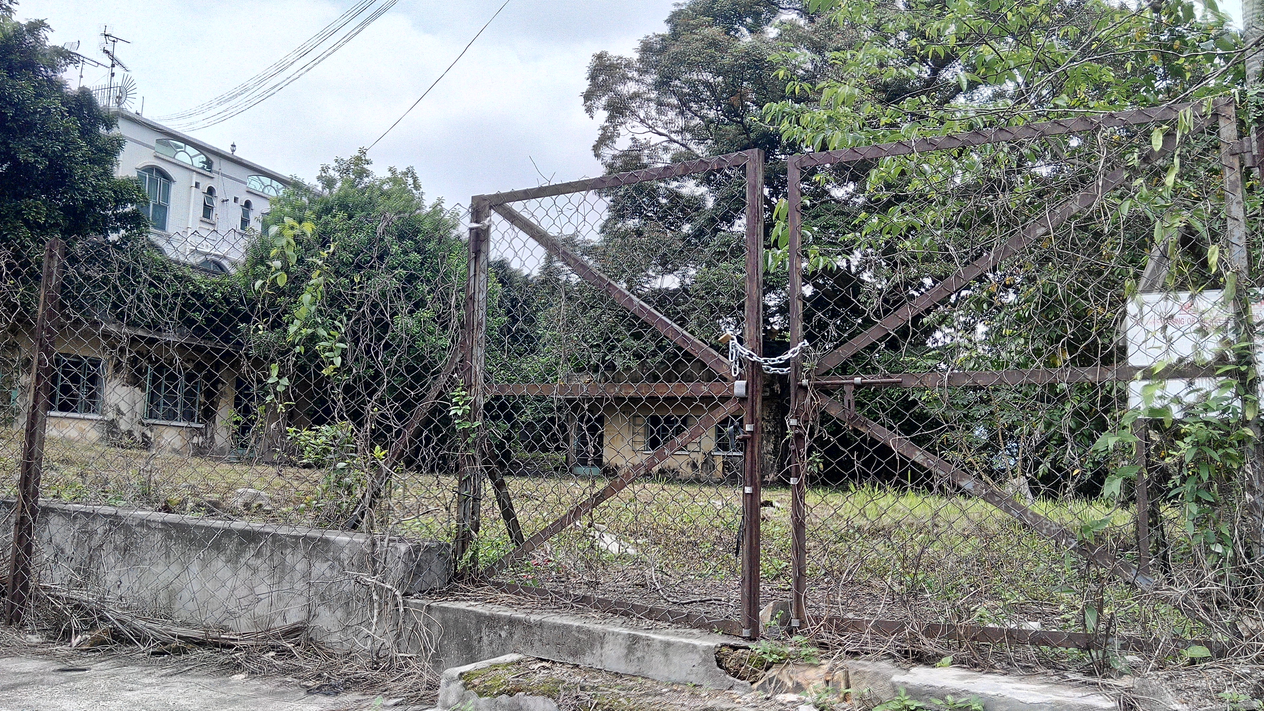 Cheung Shu Tan Tsuen, Shu Yan School